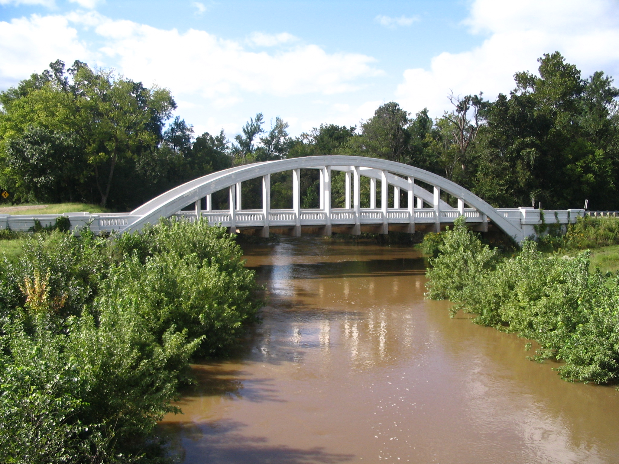 Old Rainbow Marsh Bridge on old Route 66 between Riverton KS and Baxter Springs, KS